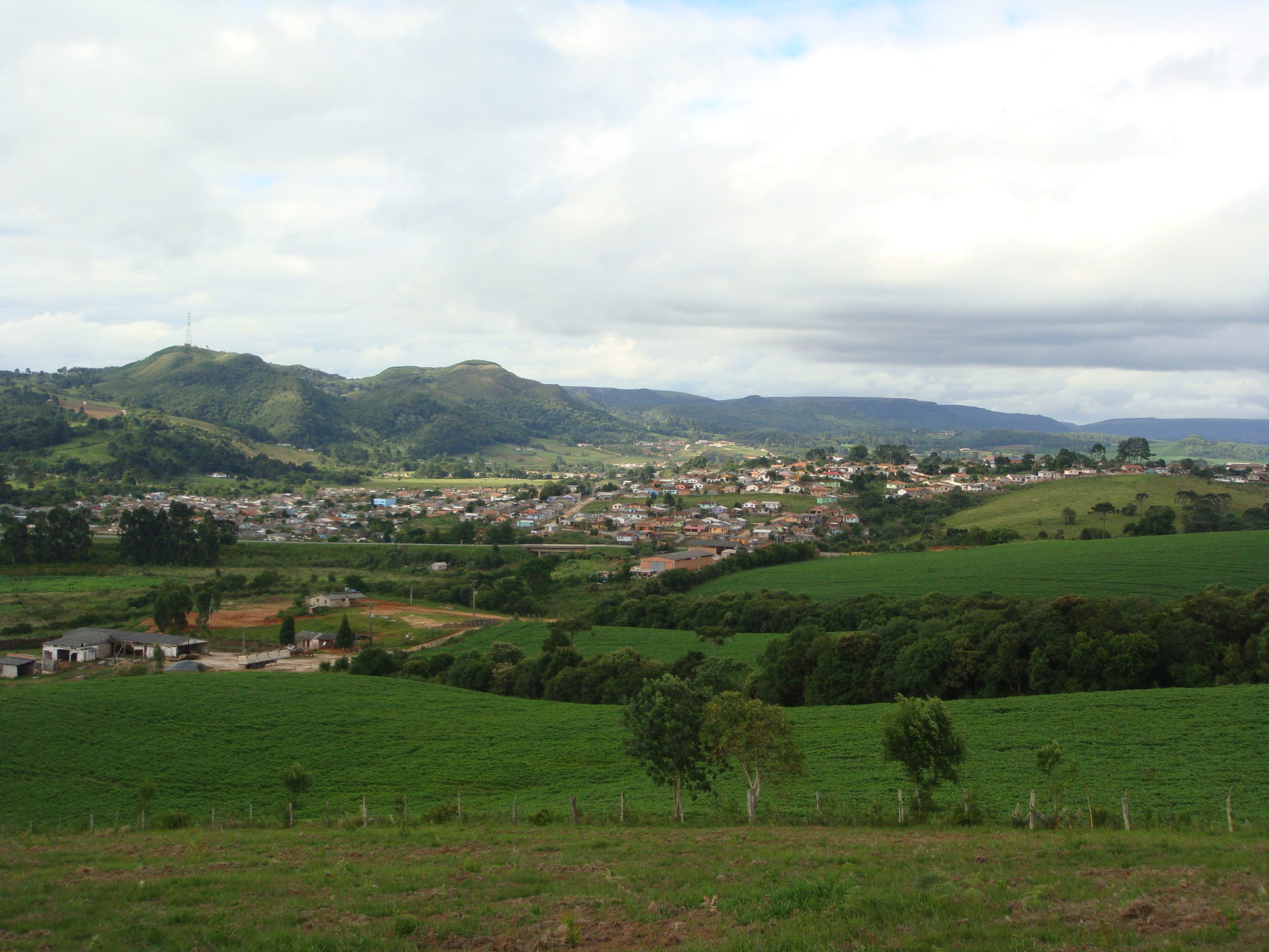 Pirai do Sul, Parana, Brazil